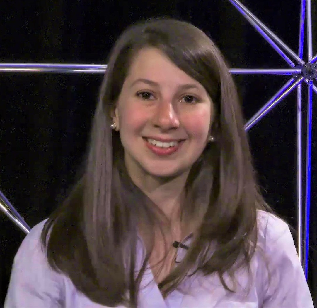 On April 10, a team of international scientists from Event Horizon Telescope project unveiled the first ever image of a black hole at the center of the M87* galaxy. We invited computer scientist Dr. Katie Bouman and astronomer Dr. Colin Lonsdale from the EHT project to answer questions from our social media followers. More about the first image of a black hole: Credit: NSF General Restrictions: Images and other media in the National Science Foundation Multimedia Gallery are available for use in print and electronic material by NSF employees, members of the media, university staff, teachers and the general public. All media in the gallery are intended for personal, educational and nonprofit/non-commercial use only. Videos credited to the National Science Foundation, an agency of the U.S. Government, may be distributed freely. However, some materials within the videos may be copyrighted. If you would like to use portions of NSF-produced programs in another product, please contact the Video Team in the Office of Legislative and Public Affairs at the National Science Foundation. Additional information about general usage can be found in Conditions.